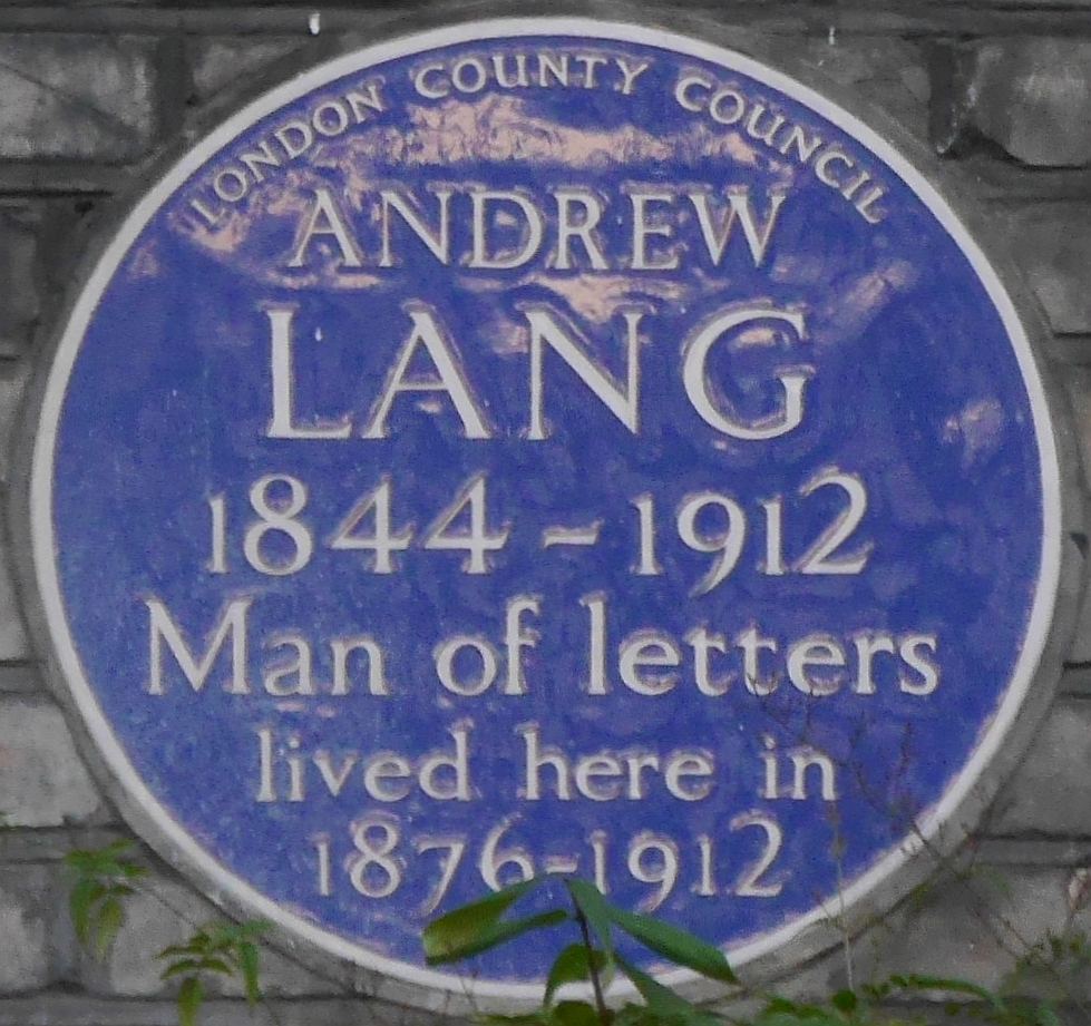 Andrew Lang 1 Marloes Road blue plaque